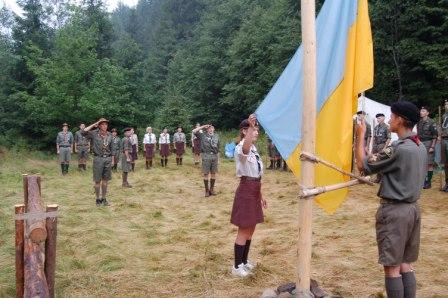 Apel at the Scouting camp helded by Plast